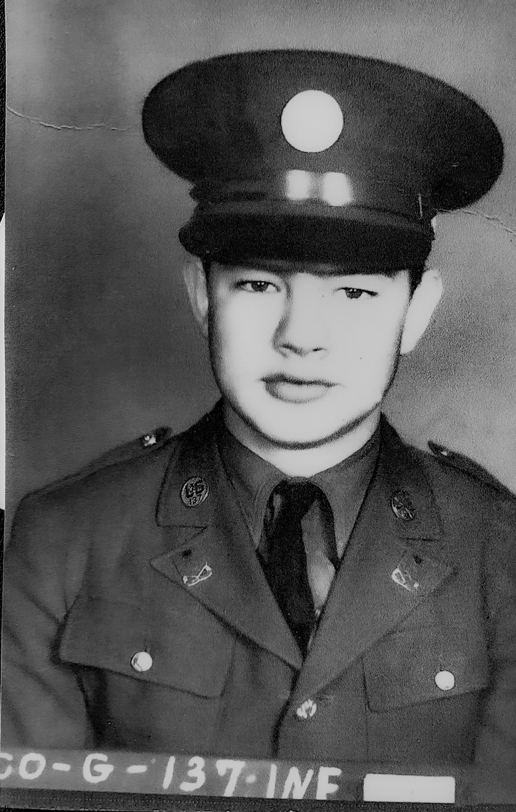 Photo of William C. Beggs enlisted into Company G of the 137th Infantry Division prior to deployment during WWII. Company G was recruited from the Kansas City area.